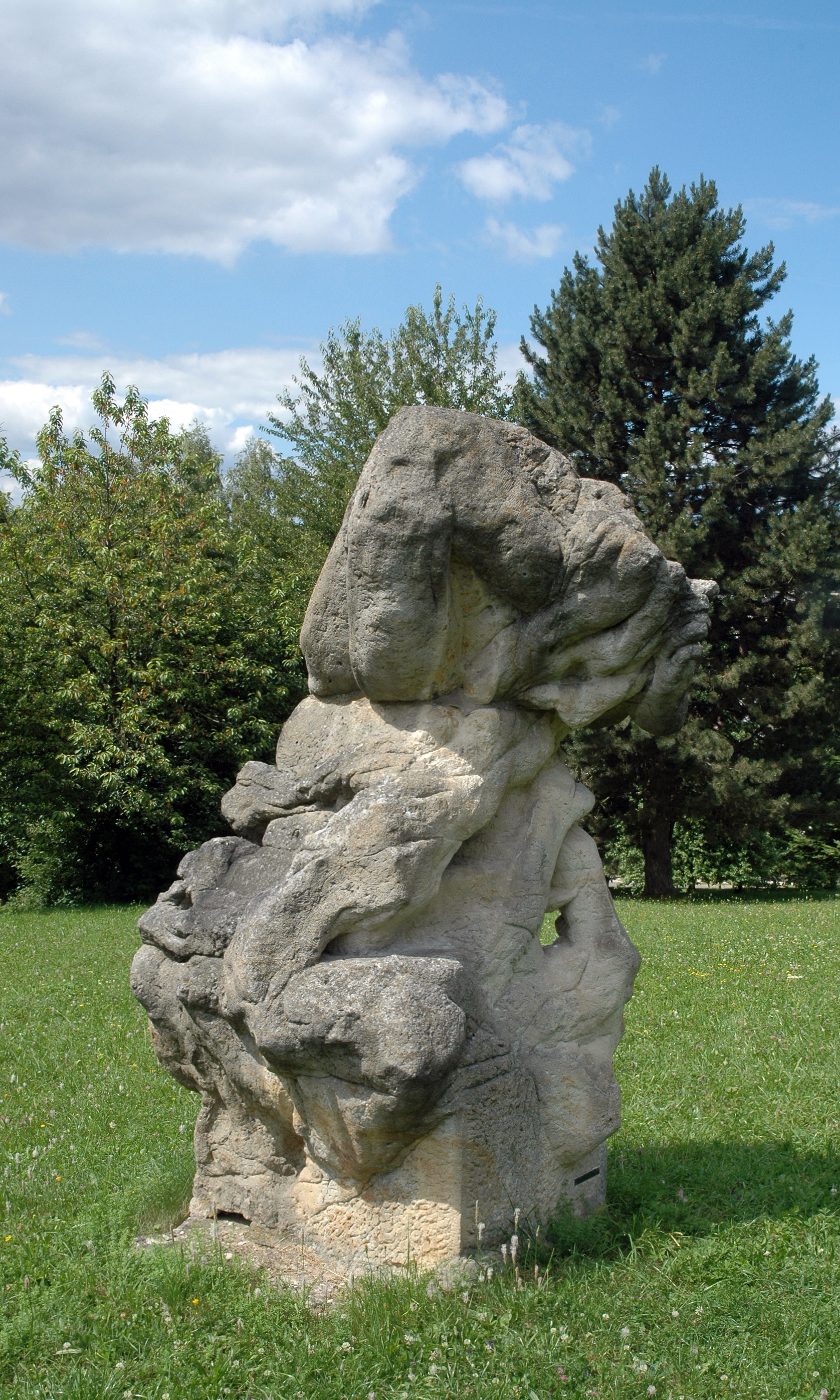 Michael Schoenholtz (Germany) - Lady in Underground (1966)